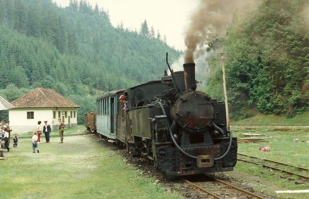 Station Coman on the railway Vișeu